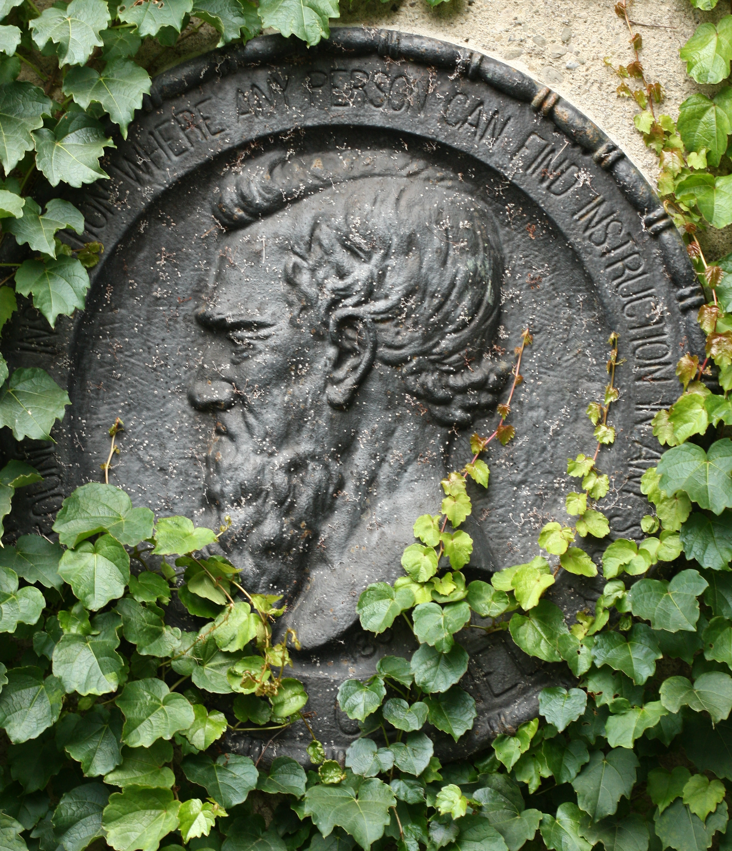 Ezra Cornell emblem with motto, surrounded by ivy; Cornell University